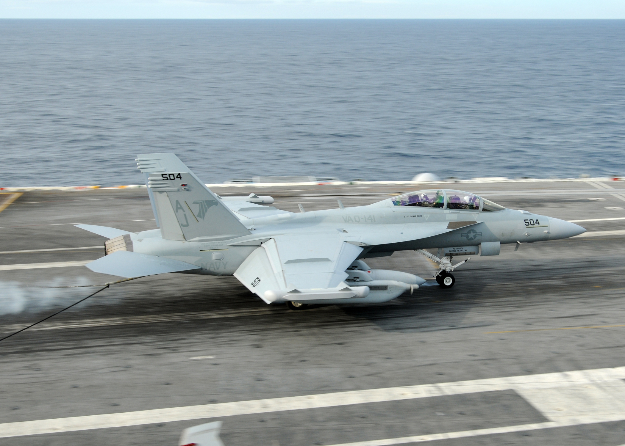 ATLANTIC OCEAN (May 22, 2010) An E/A-18G Growler assigned to the Shadowhawks of Electronic Attack Squadron (VAQ) 141 makes the 5,000th arrested landing, or trap, aboard the aircraft carrier USS George H.W. Bush (CVN 77). George H.W. Bush and Carrier Air Wing (CVW) 8 are underway in the Atlantic Ocean. (U.S. Navy photo by Mass Communication Specialist Seaman Apprentice Leonard Adams/Released)